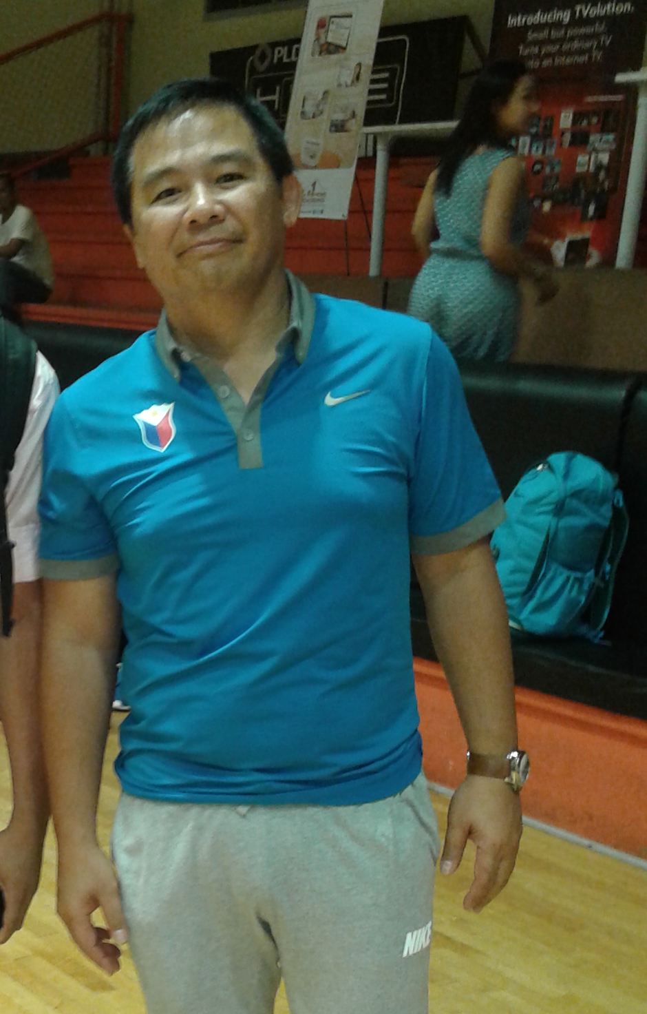 Chot Reyes during the Gilas Pilipinas practice last May 12, 2014